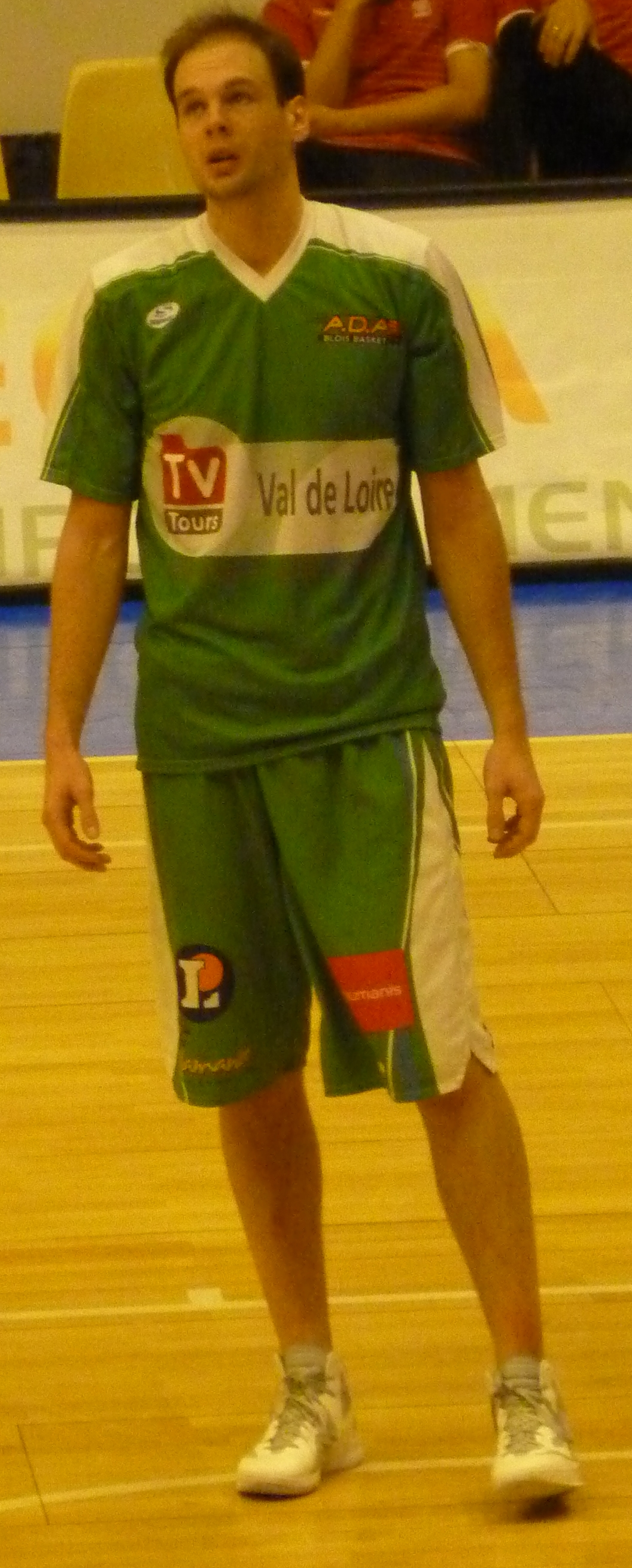 Ville Kaunisto, Finnish basketball player. Taken on March 9th at the Palais de sports de Clermont-Ferrand during a 3rd division game between Stade clermontois basket Auvergne and Abeille des Aydes Blois Basket (Kaunisto's team).